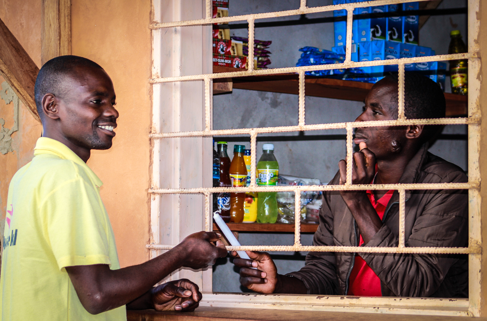 Kantenda ‘Small shop’ owner sales a candle to a customer This is an image of "African people at work" from Zambia